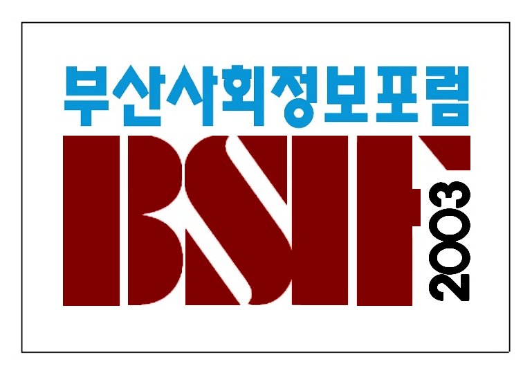 This is the symbol of the Busan Social Information Forum.